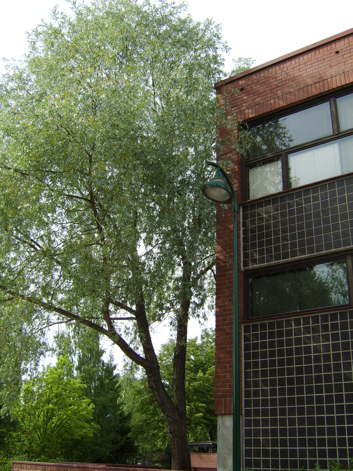 A Salix alba tree outside Turun normaalikoulu.